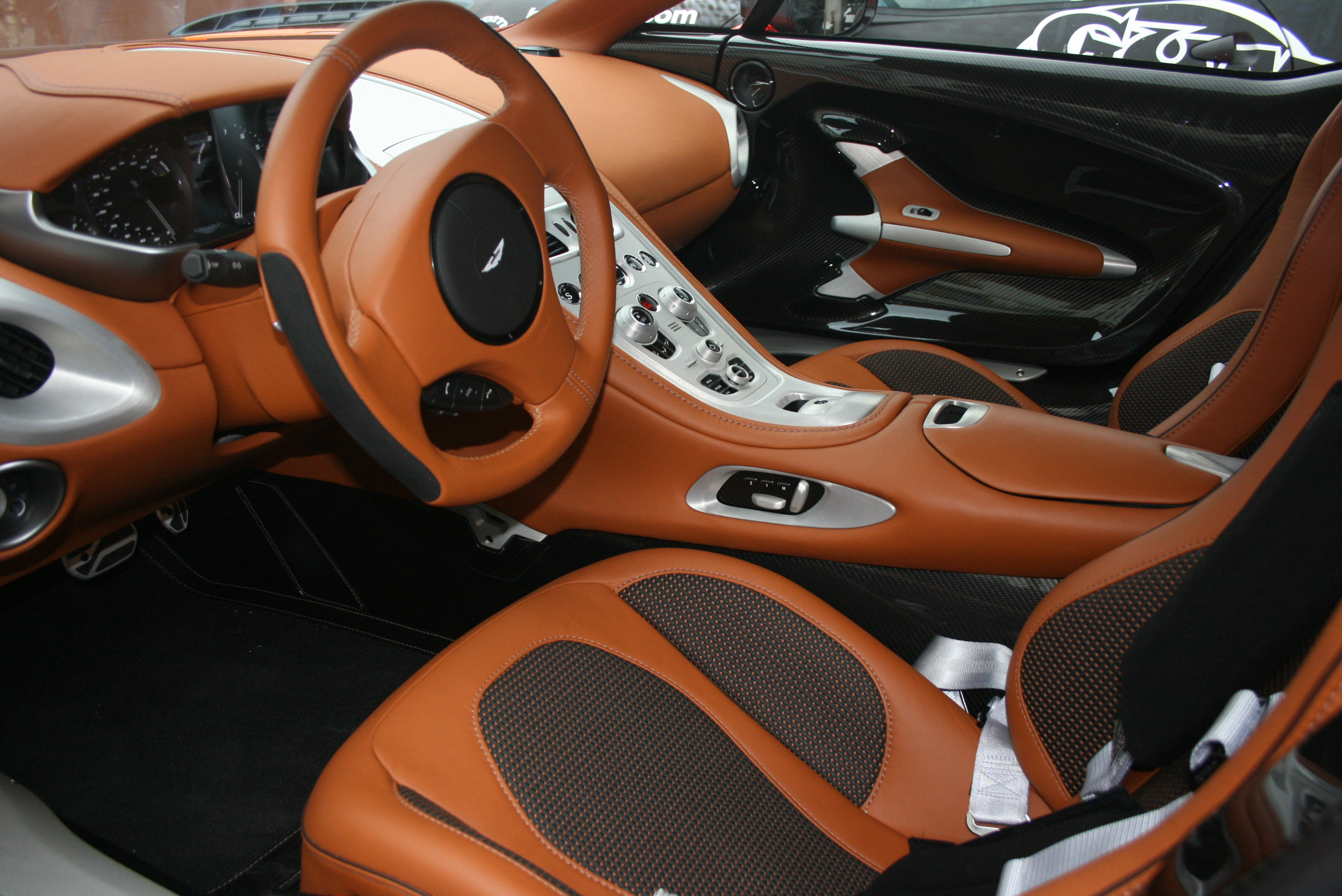 Interior of Aston Martin One77